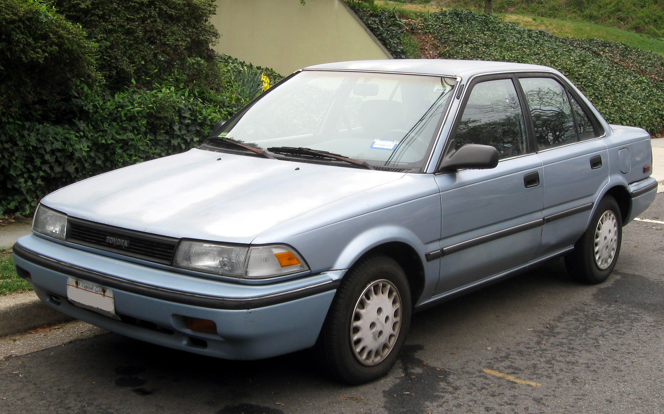 1988-1990 Toyota Corolla LE (AE92), photographed in Washington, D.C., USA.